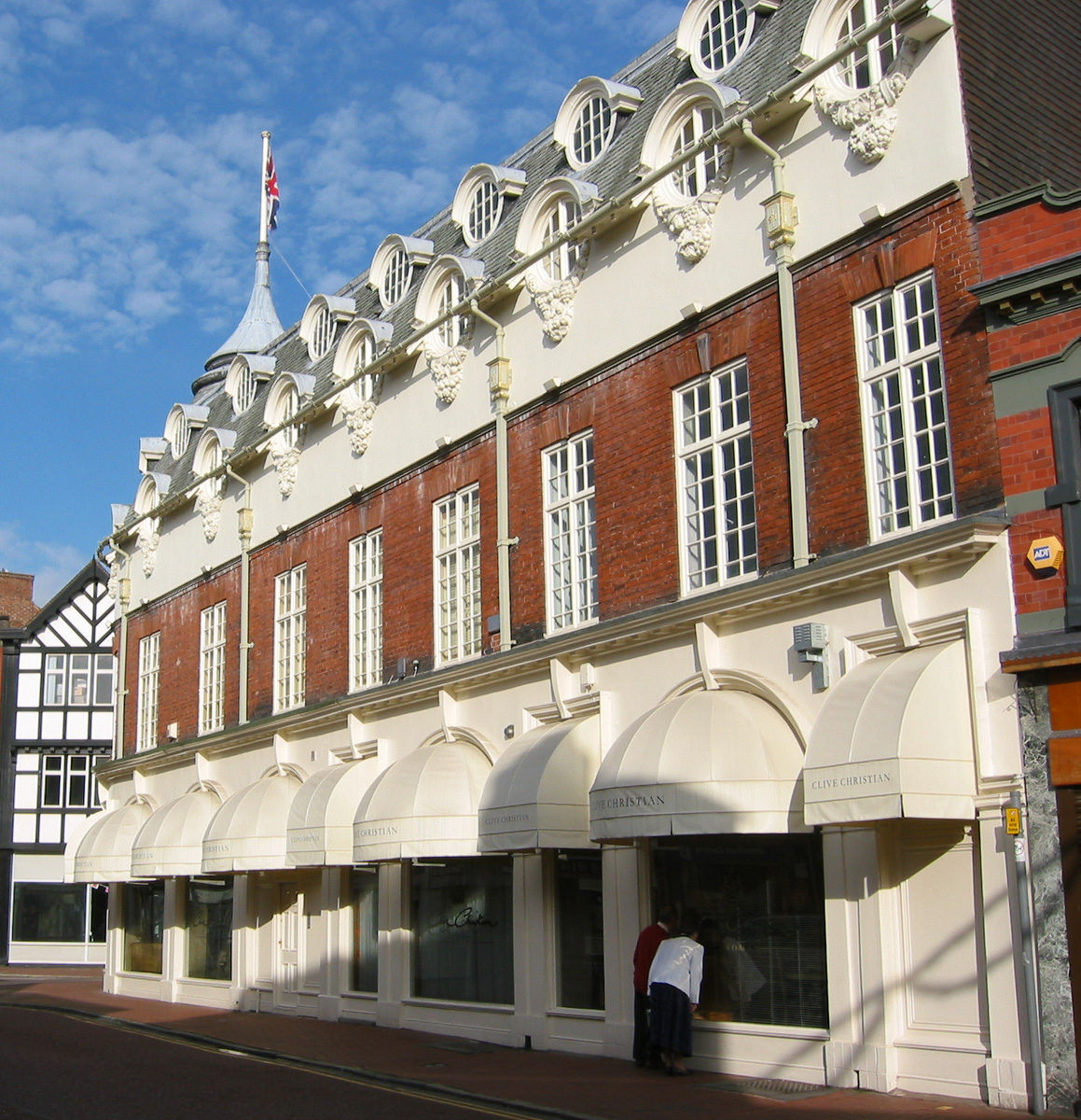 Pillory Street face of 1–5 Pillory Street, Nantwich, Cheshire